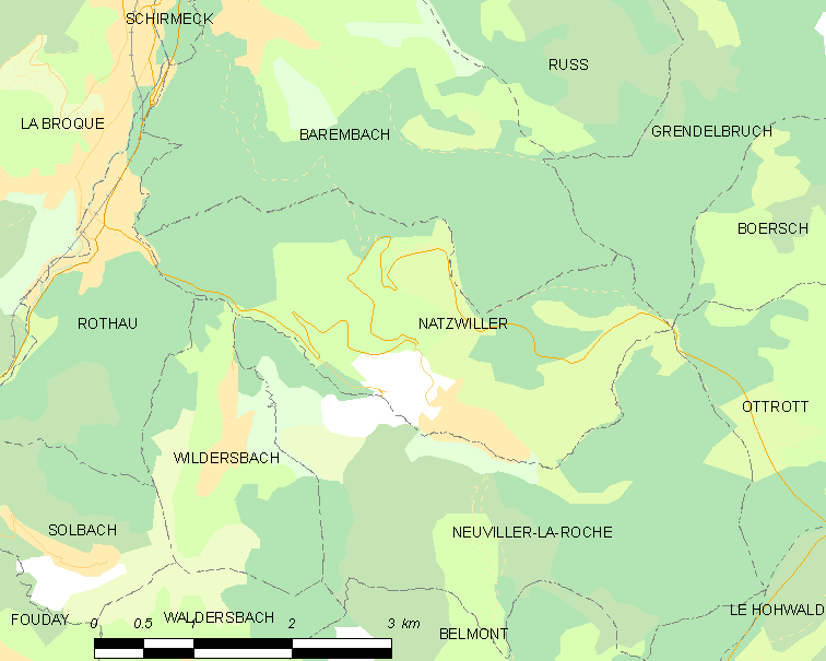 Map of French municipality